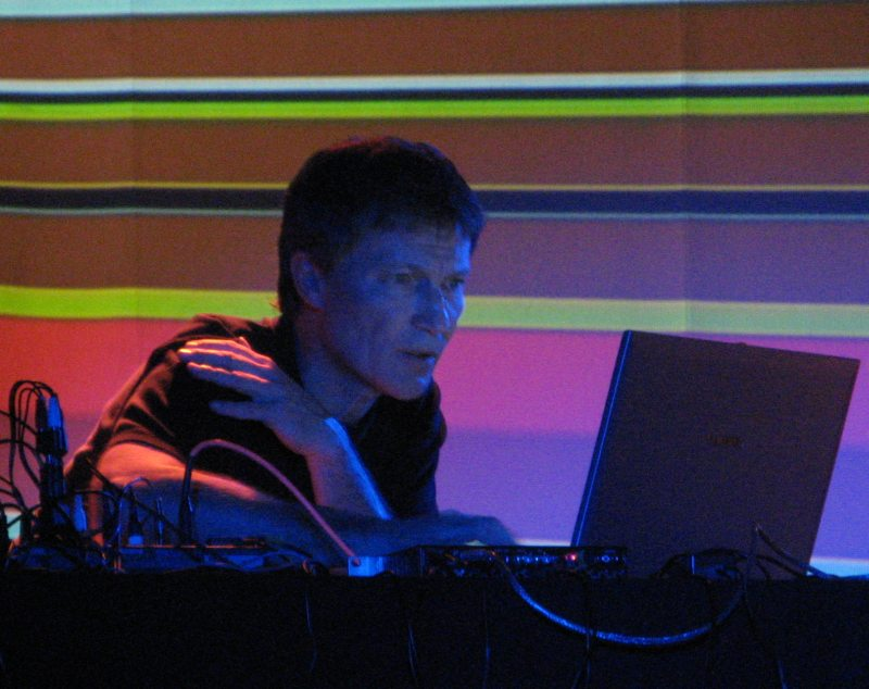 German guitarist and experimental musician Michael Rother (ex - Kraftwerk, Neu!, Harmonia). This photo was taken live at a concert of ROTHER & MOEBIUS (an electronica /ambient-krautrock collaboration project of Michael Rother & Dieter Moebius) in Frankfurt am Main/Germany (at "Sinkkasten"). More pictures from the same concert: Image:Michael_rother_2007-11-14_live1.jpg, Image:michael_rother_and_dieter_moebius_2007-11-14_live.jpg, Image:dieter_moebius_2007-11-14_live.jpg